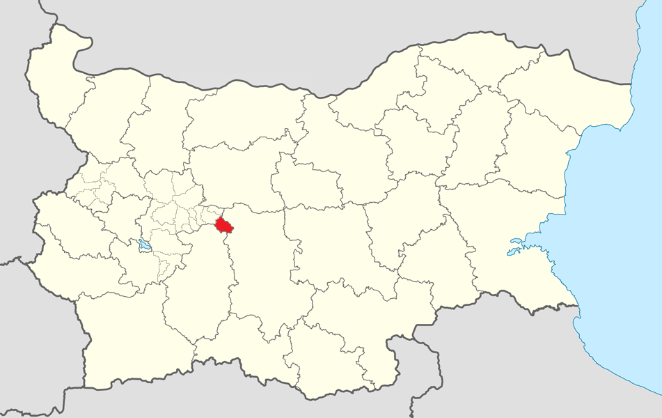 Location map of Koprivshtitsa Municipality within Bulgaria and Sofia province